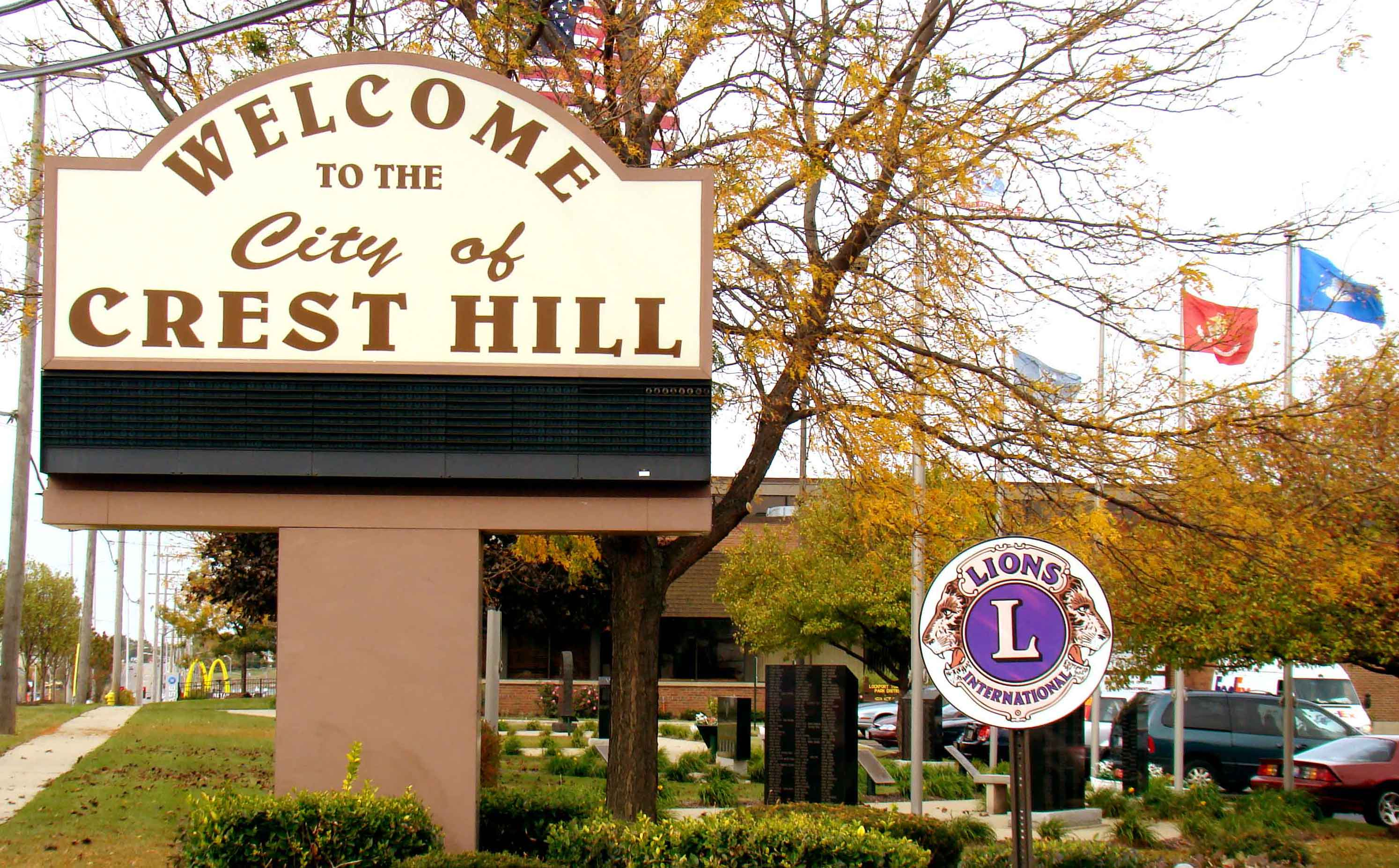 The City of Crest Hill - City Hall Fall 2010